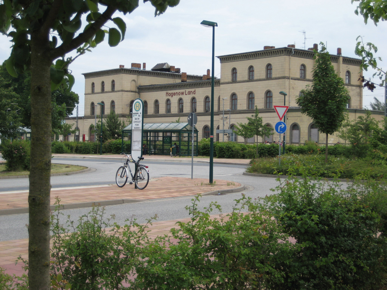 Hagenow Land west front